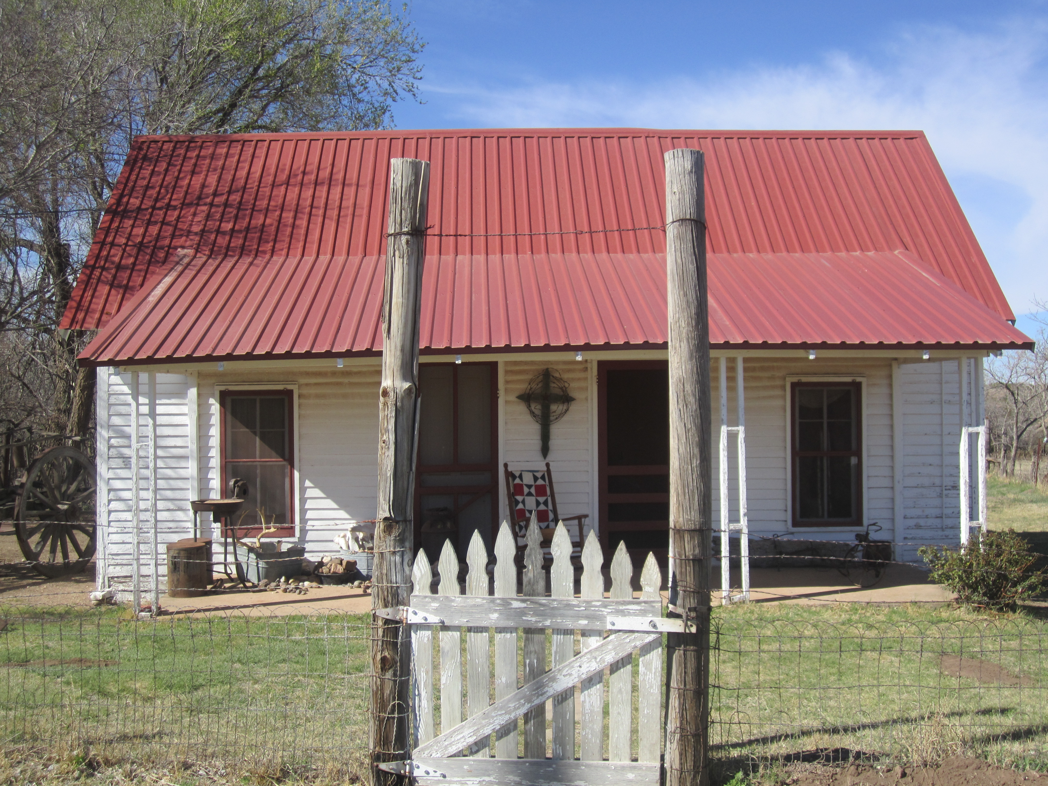 Ranch house, with wooden gate on tall gateposts, and welded wire net fencing - at the Mott Creek Ranch previously part of the Matador Ranch in Motley County, Texas. I took the photo with a Canon camera, at the Matador Ranch.